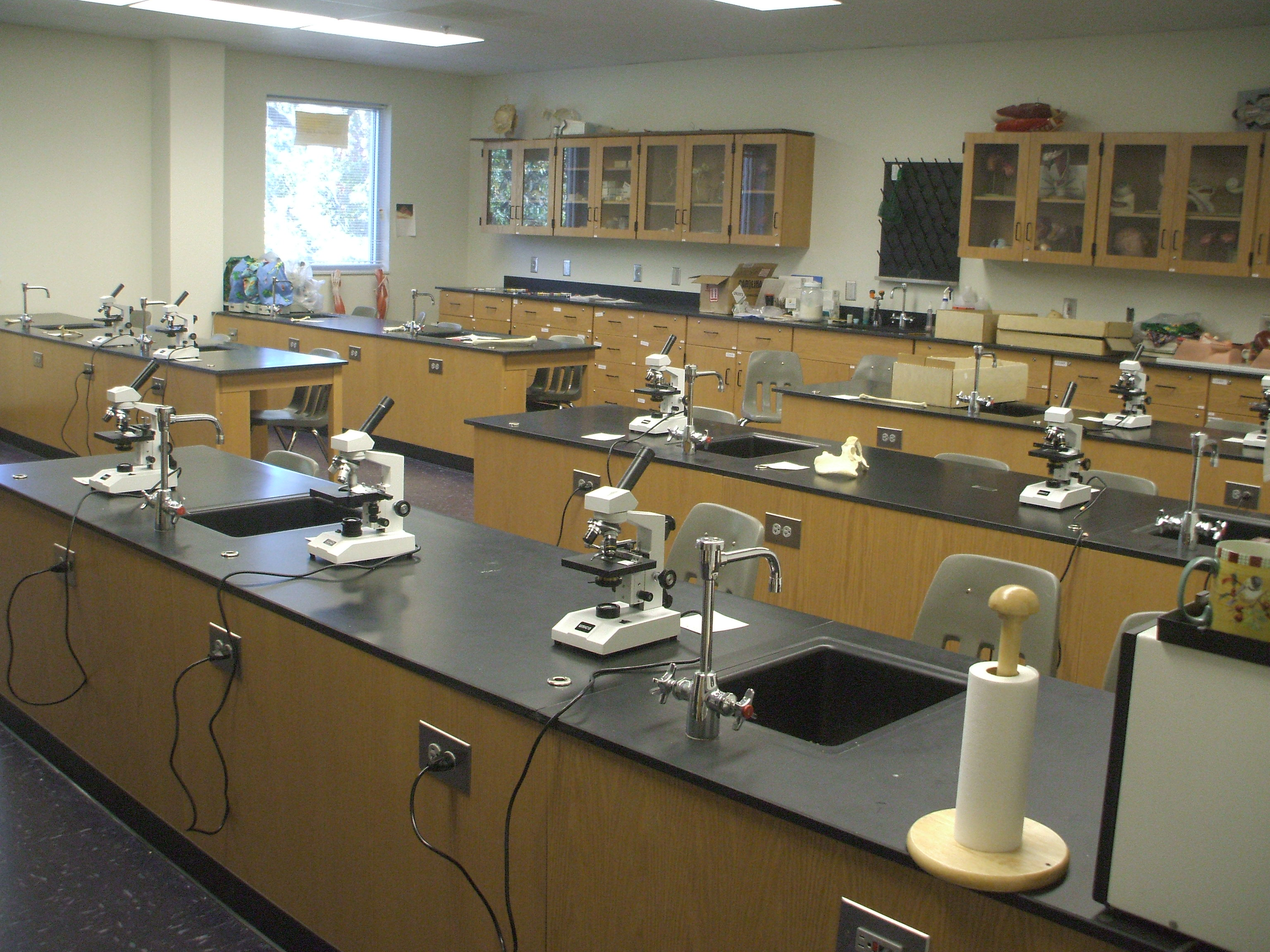 A chemistry laboratory in a post-secondary institution. Microscopes are set on many stations.